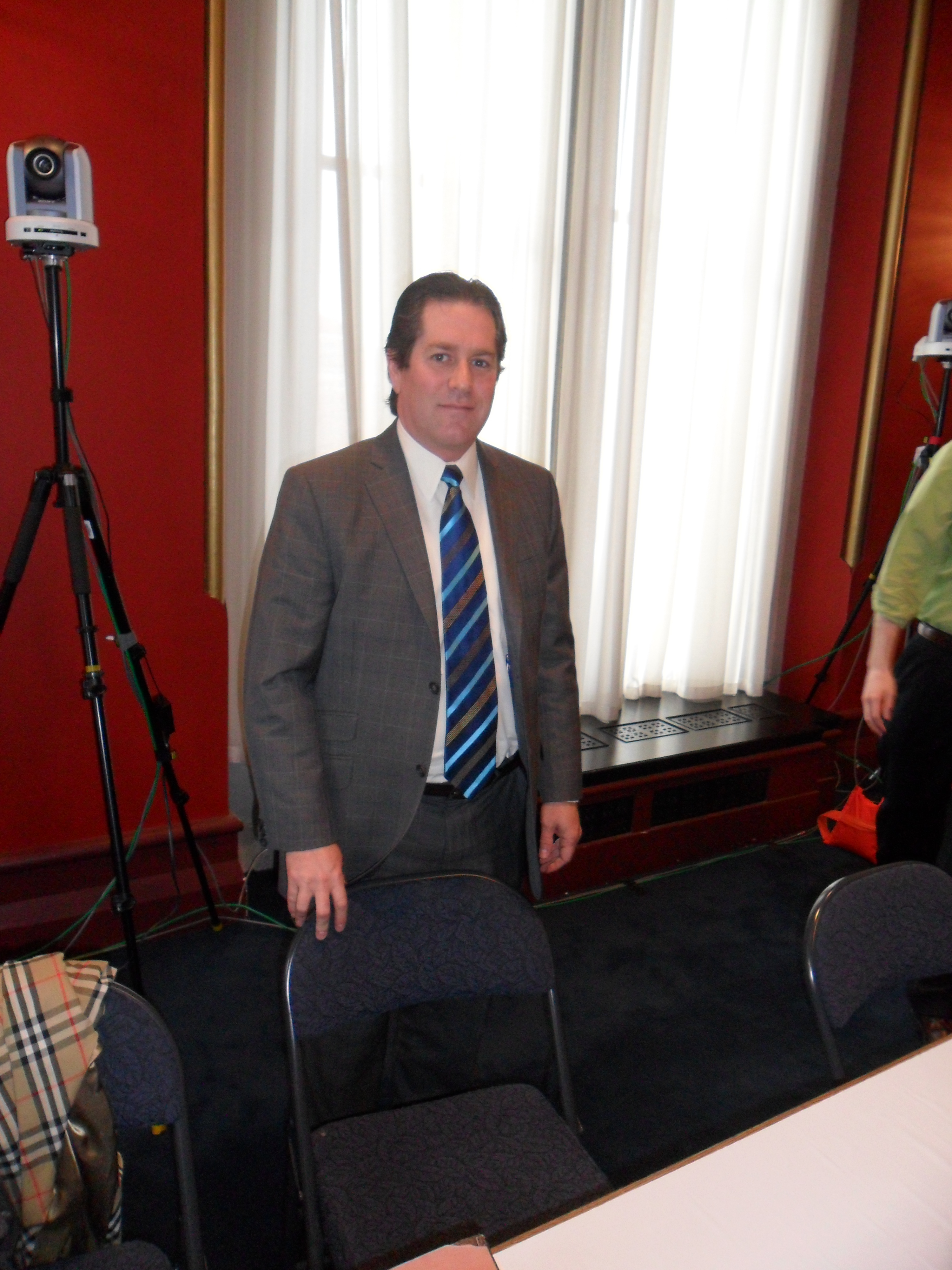 Image of Jeffrey Pearlman, American attorney, at the New York State Capitol, Assembly Parlor